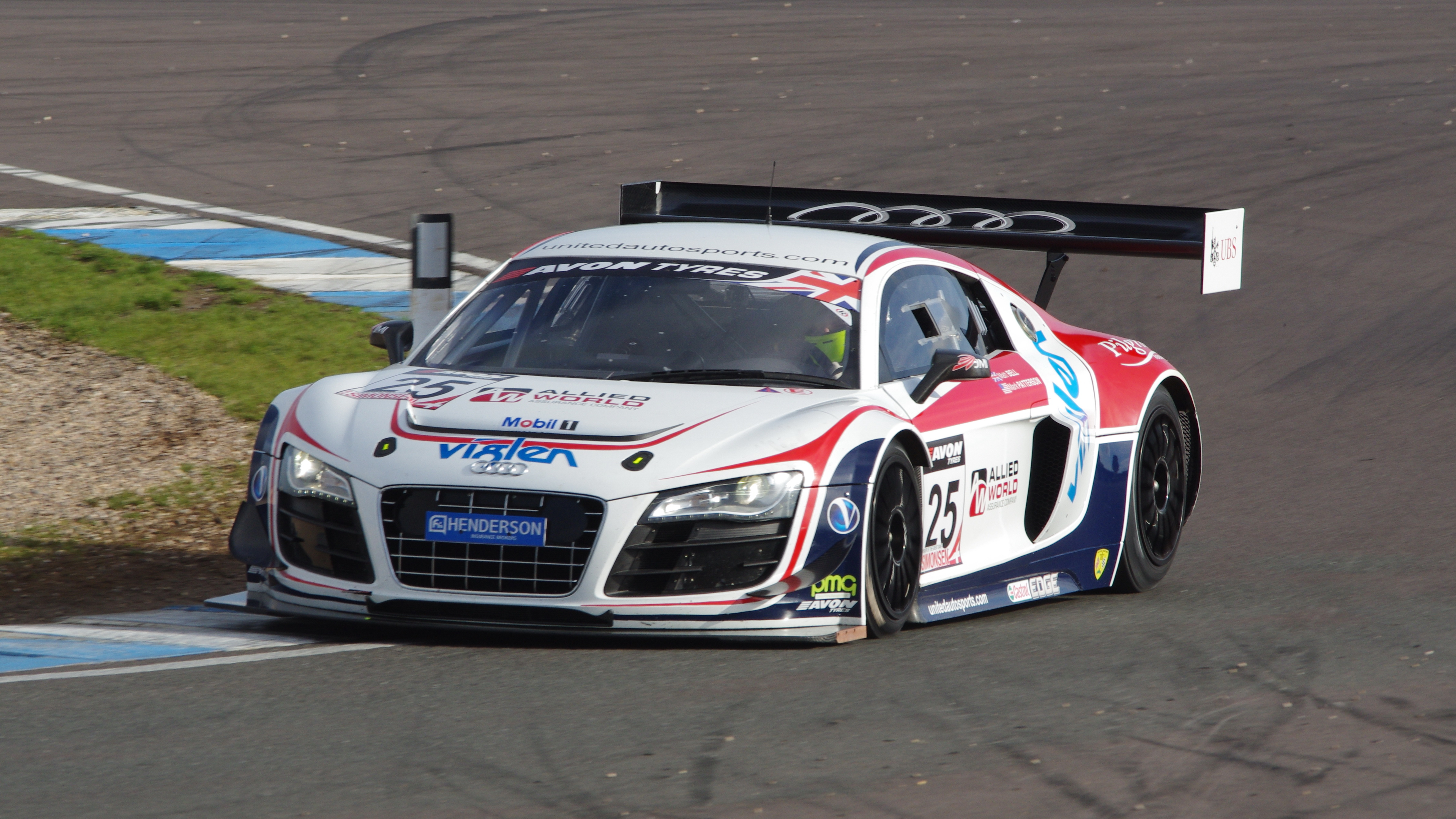 British GT 2013 Donington - #25 Matt Bell / Mark Patterson - United Autosports Audi R8 LMS Ultra GT3 - Fogarty Esses